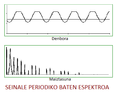 Spectrum of a periodic signal